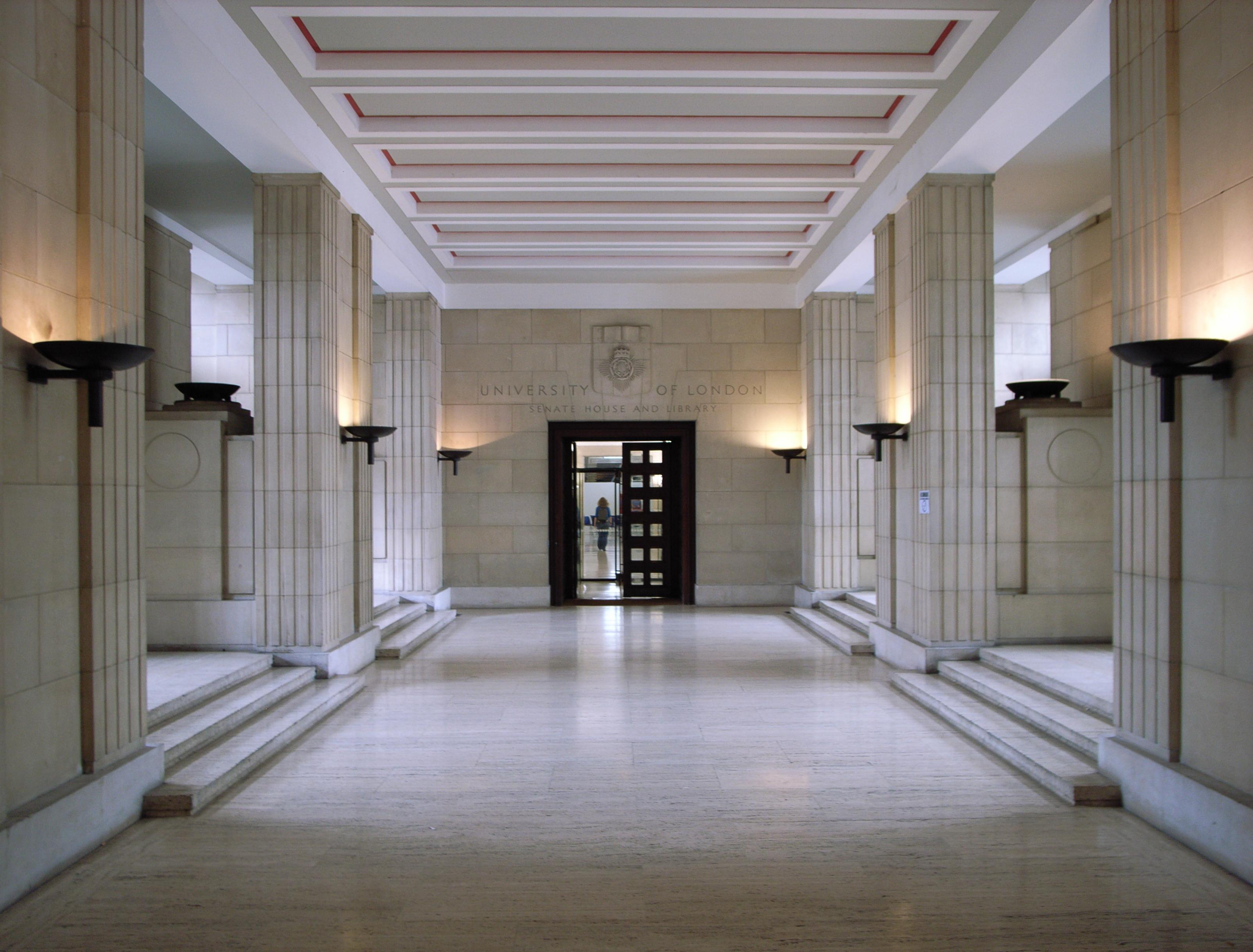 Inside Senate House, University of London